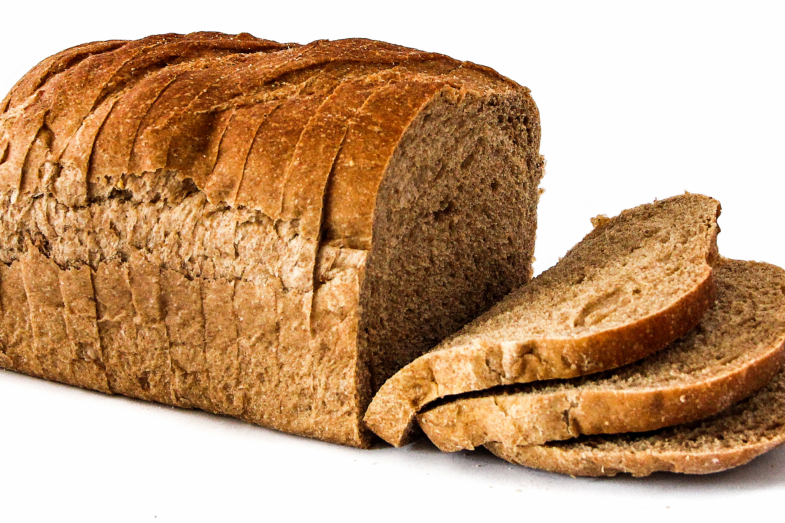 Freshly made bread from a local bakery